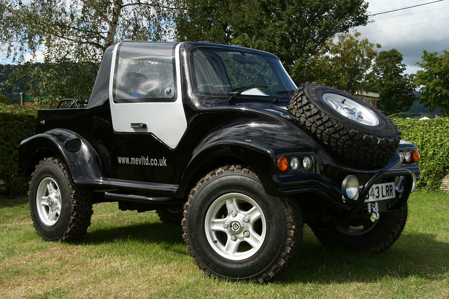 Front three-quarter view of MEV Trek 4x4